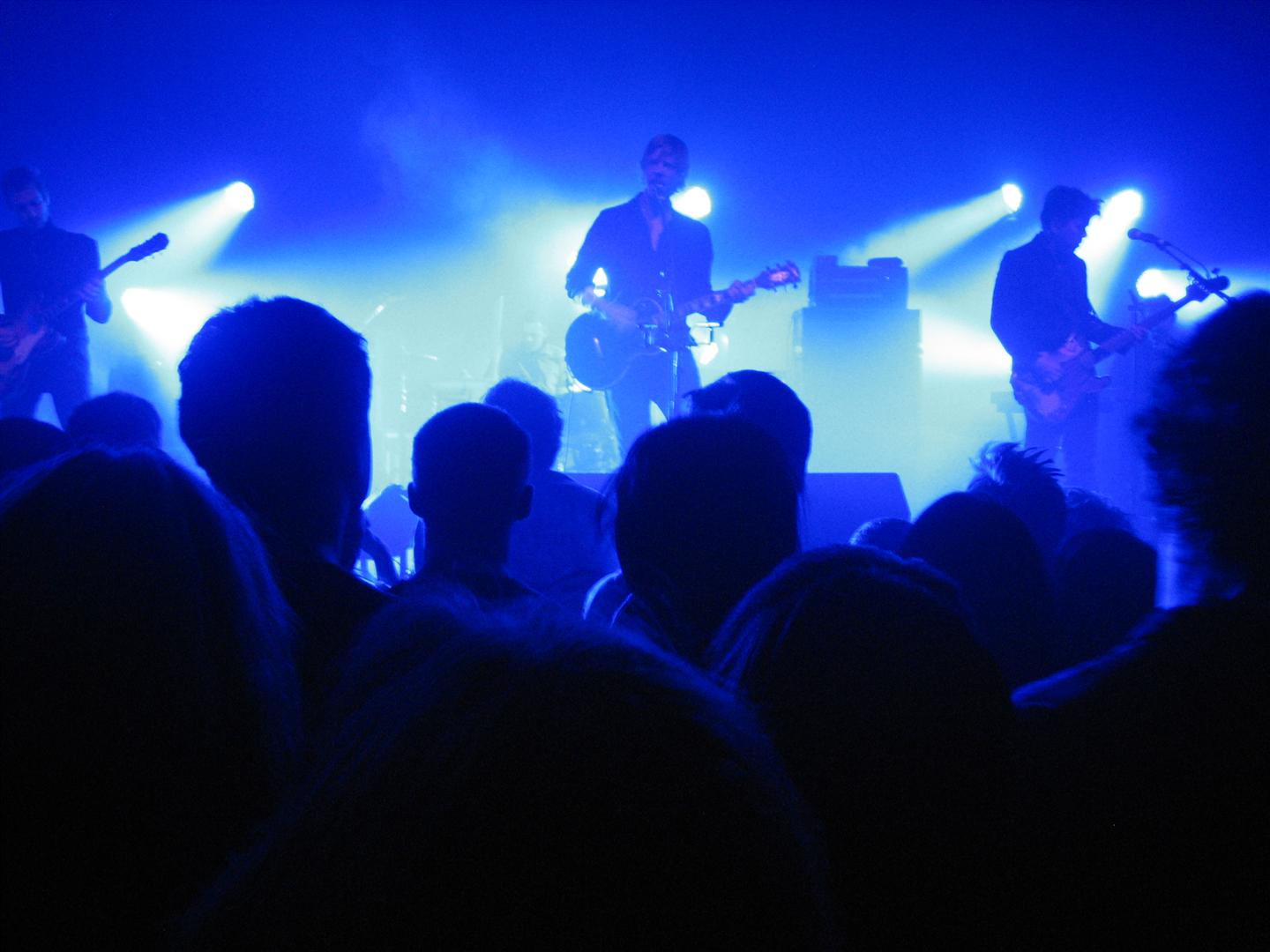 Interpol (band) 2010-07-25